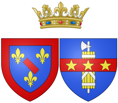 Coat of arms of Anne Marie Martinozzi as Princess of Conti